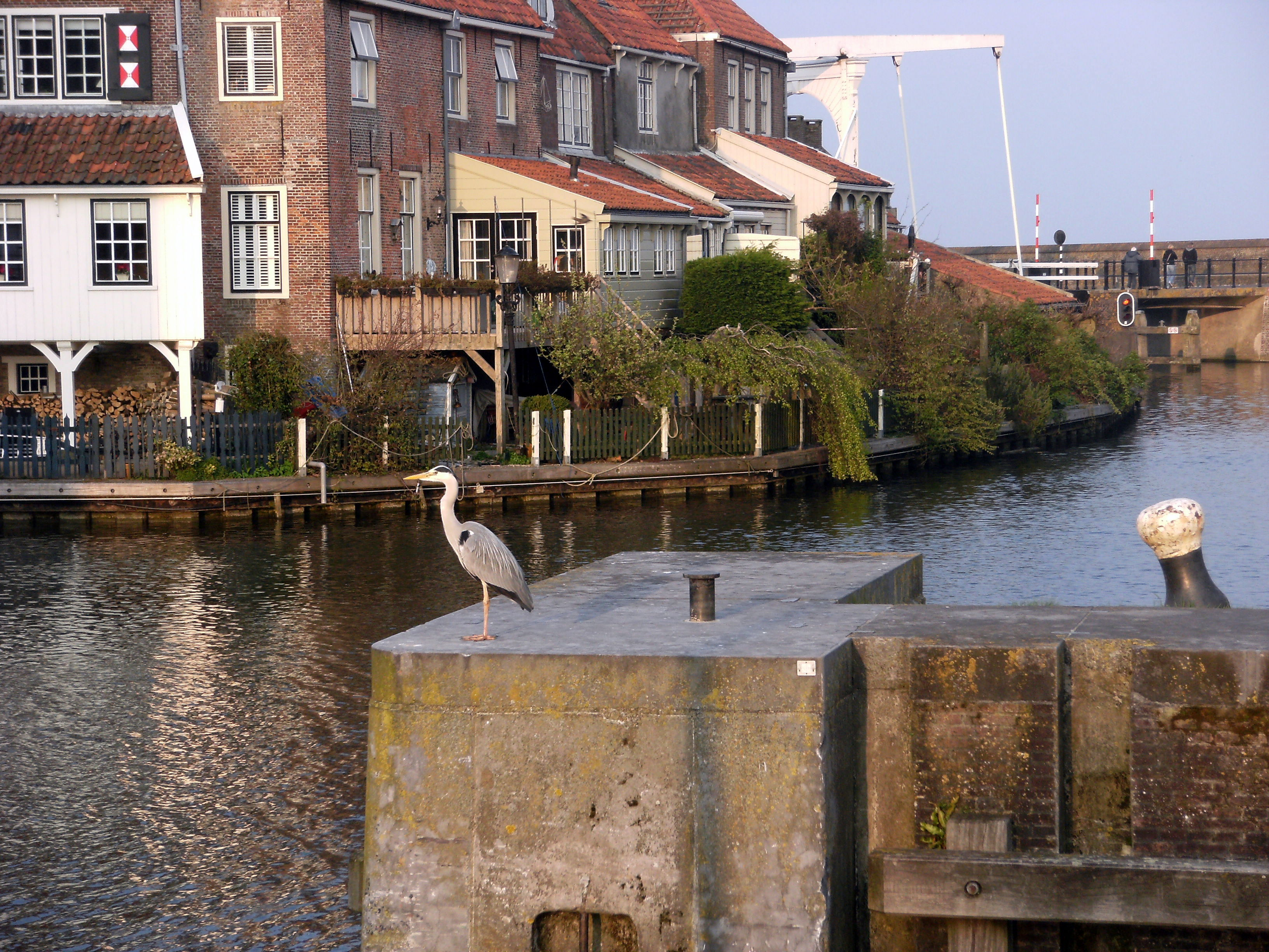 2011-04-17 in Enkhuizen.